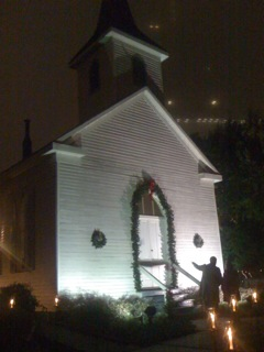 St. John Evangelical Lutheran Church. Candlelight Evening at Sam Houston Park. Downtown Houston, December 24, 2009. St. John Evangelical Lutheran Church. Candlelight Evening, Sam Houston Park. Downtown Houston, December 24, 2009. Historical Architecture. Buildings from 1891. Church located not in its original place.